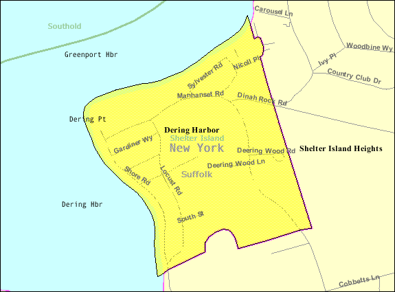 U.S. Census 2000 reference map for Dering Harbor